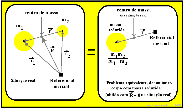 The reduced mass and the problem of single body as a possible solution to the gravitational problem involving two massive bodies in interaction.